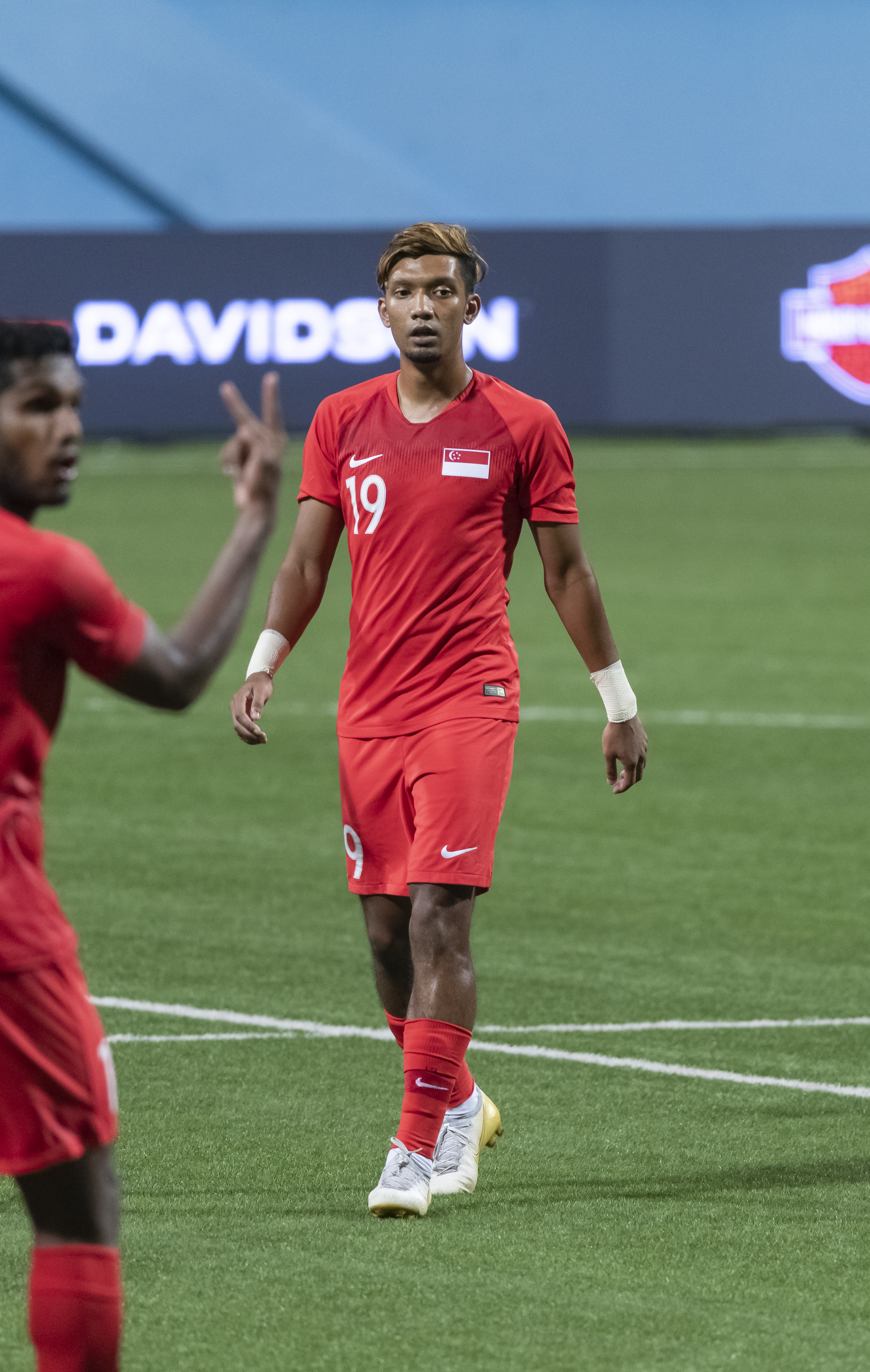 Fareez Farhan Singapore national football team v palestine Jalan Besar 2019